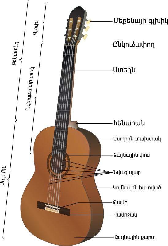 Acoustic guitar